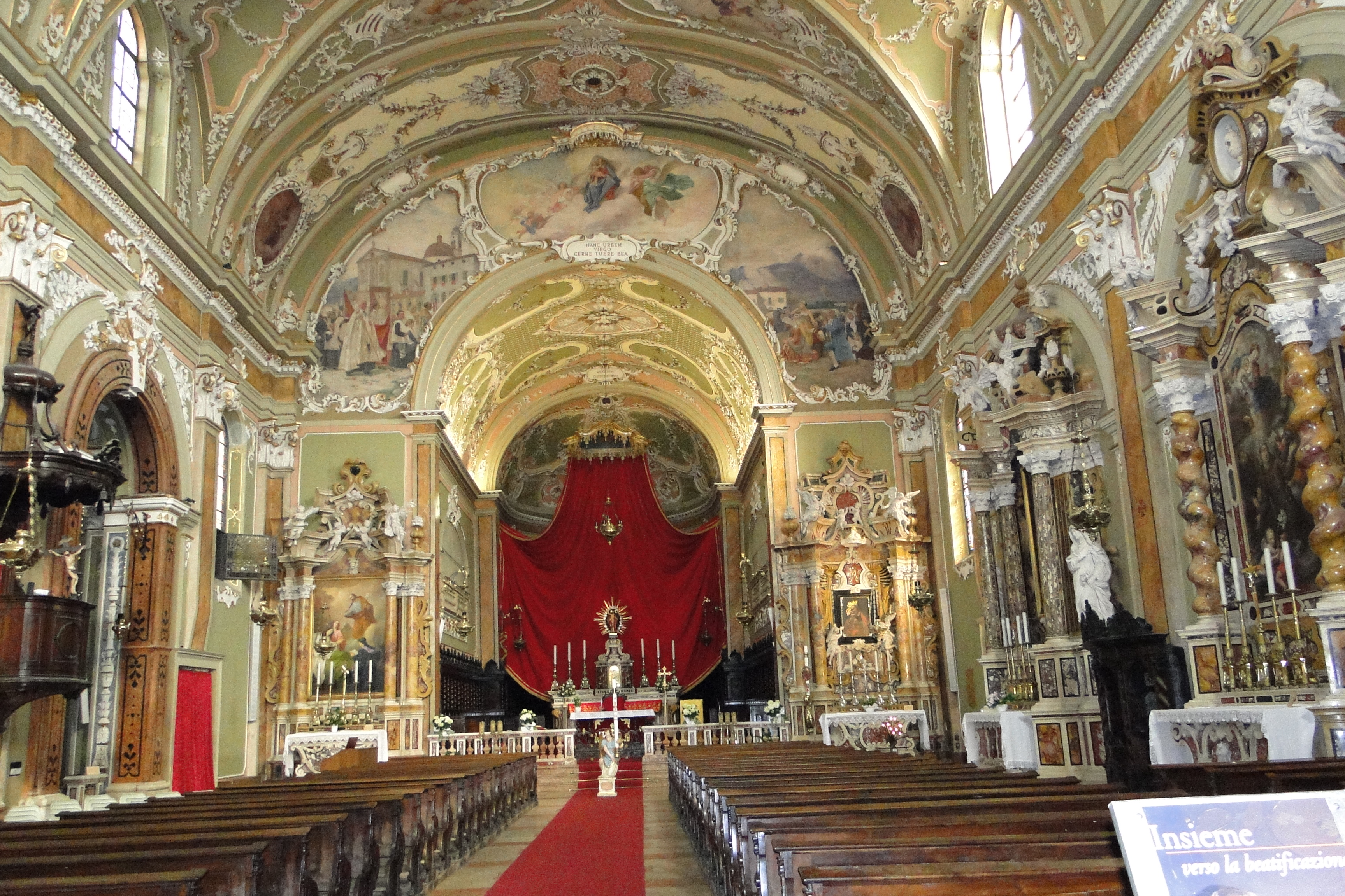 Church of San Marco (St. Marcus) in Rovereto (Italy): Nave